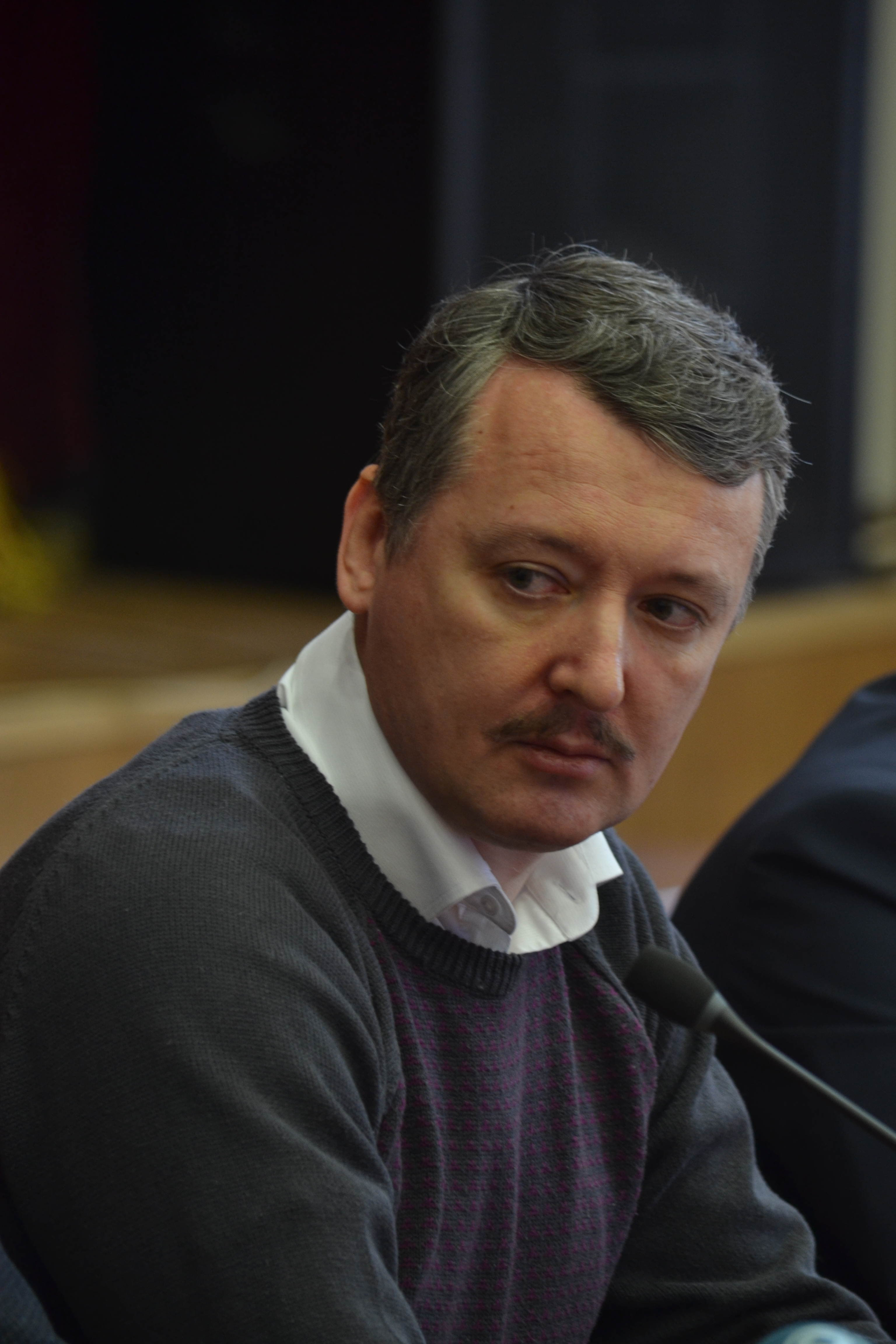 Igor Strelkov at the press conference in Yekaterinburg